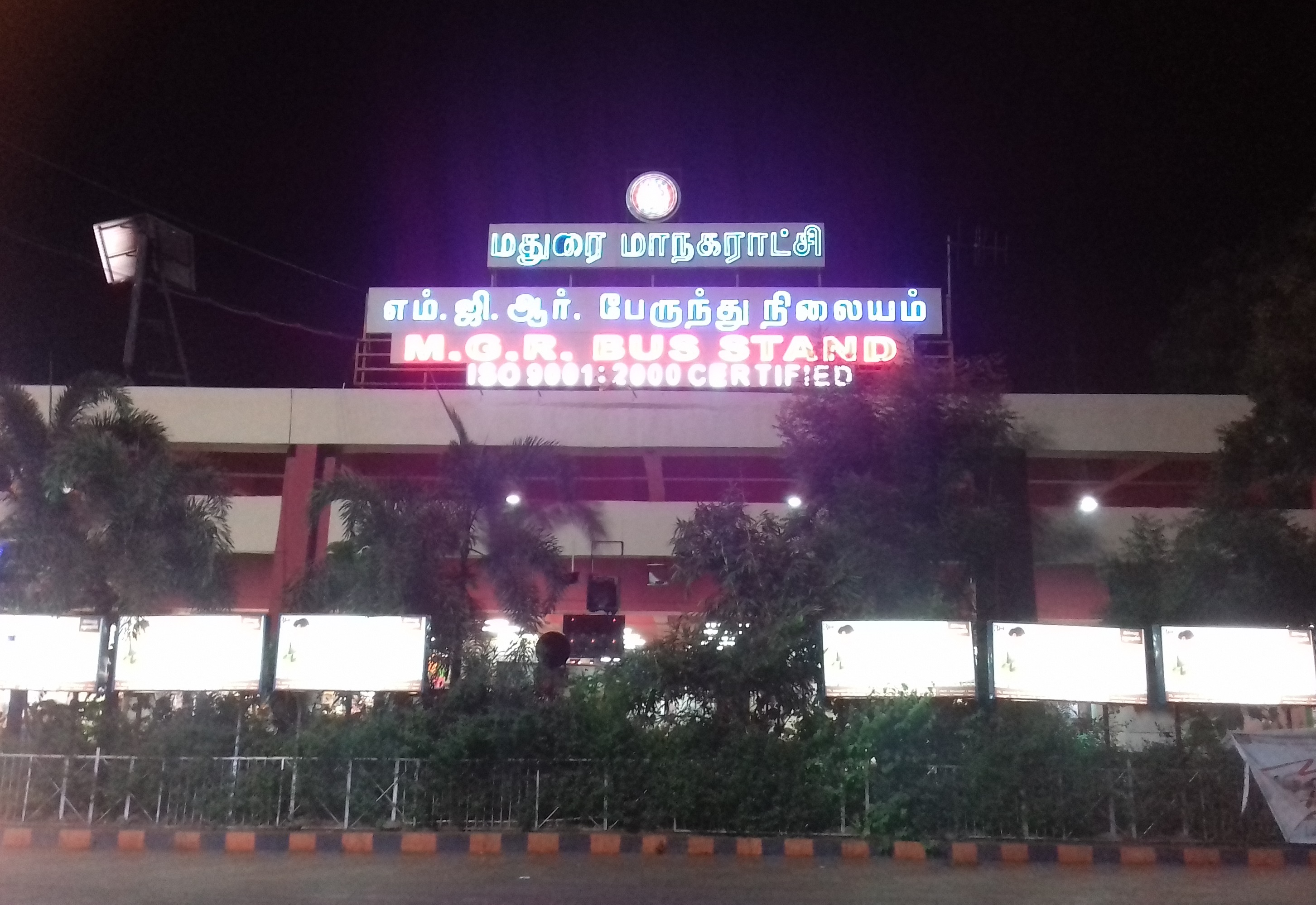 This is the entrance view of M.G.R Bus Stand in Madurai